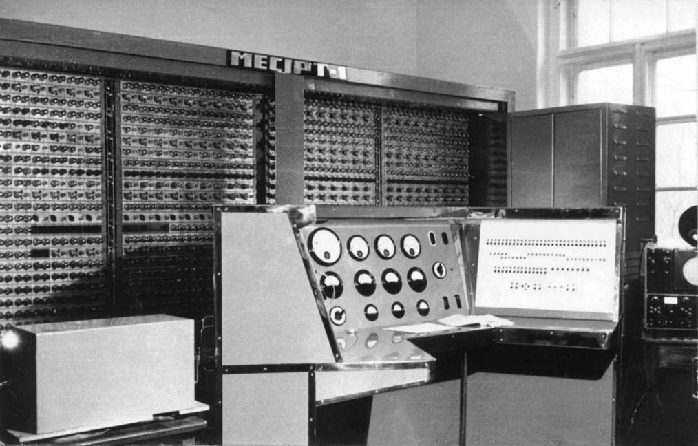 MECIPT-1, first electronic computer, with valves, buildt at Politehnica University of Timișoara, 1961.